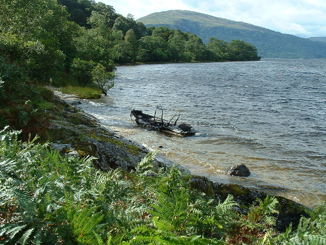 Inchlonaig Boat Wreck. Looking North West up Loch Lomond from the beach on the East side of the island of Inchlonaig. In the foreground is the remains of a speedboat that caught fire. No-one hurt.